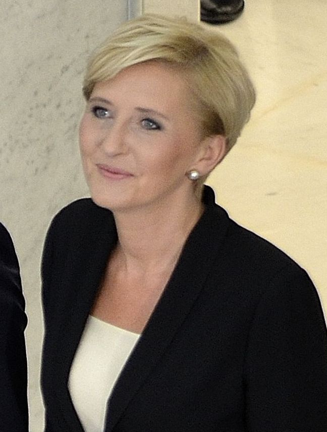 The first lady of Poland Agata Duda Kornhauser - on swearing her husband Andrzej Duda President of the Republic